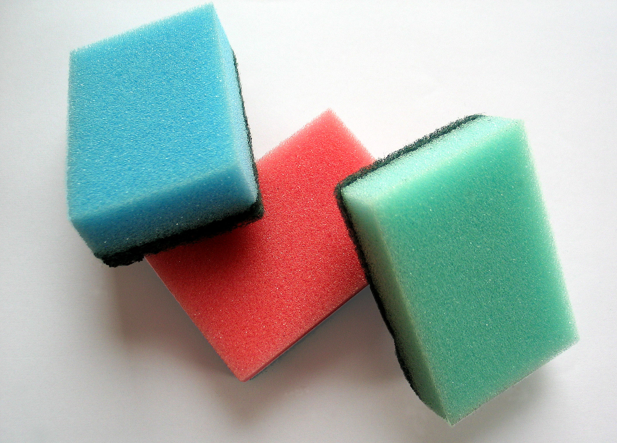 Picture of three sponges